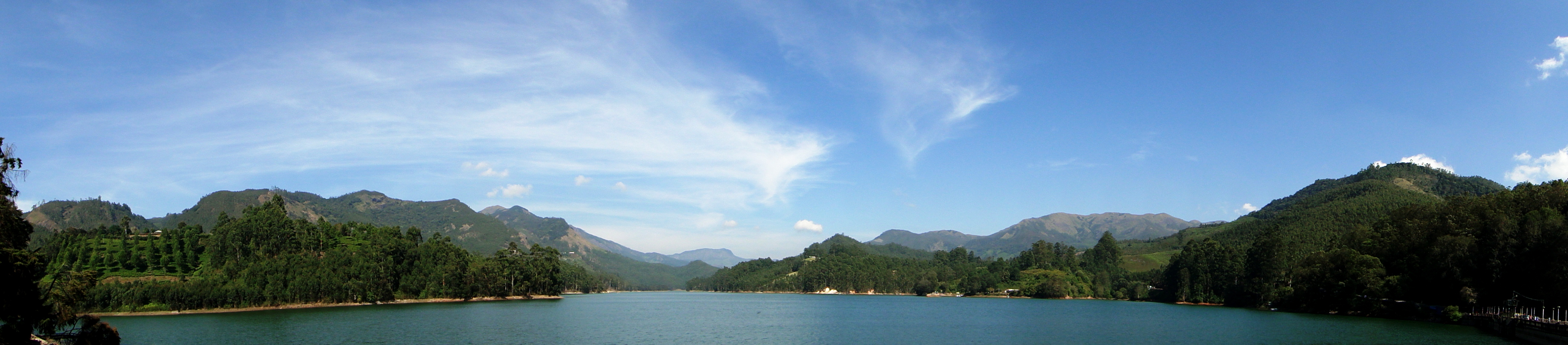 Panoramic View of Mattupetty Dam, Munnar, Kerela, India